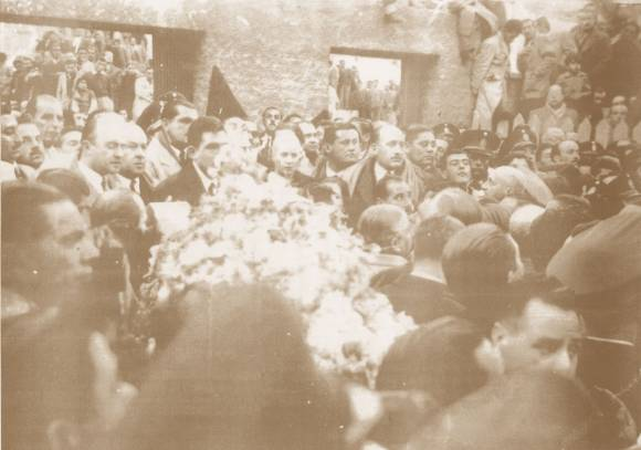 Funeral of governor Ruperto Godoy. Argentinian first lady and bearer of the humble Evita Perón asist to the ceremony in the Capital´s cementery. In the picture José Amadeo Conte Grand, Pablo Ramella, Eloy Prospero Camus and Viviano Rinaldi.